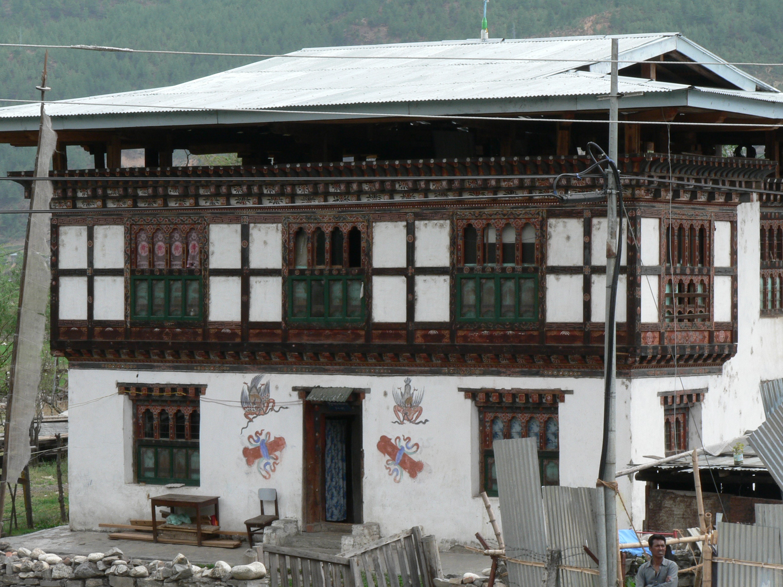 Bhutanese house — traditional architecture of the Paro district in Bhutan.